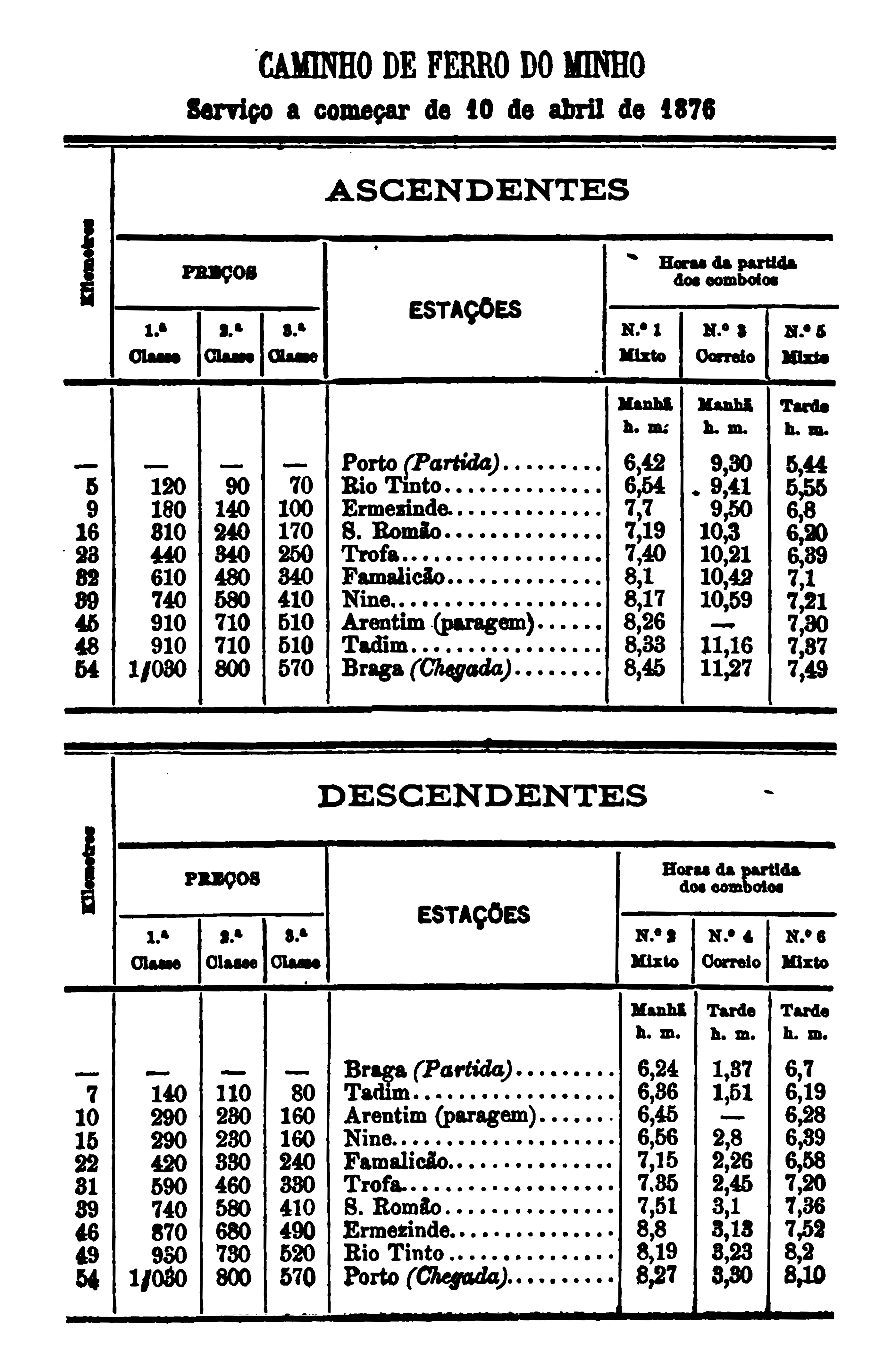 Timetable of the Minho Railway, which at the time was only built from Porto (Campanhã Station) to Nine, and the Braga Branchline, in Portugal. These two lines were managed by the portuguese government division of the Caminhos de Ferro do Minho e Douro (Minho and Douro Railways). This image was originally published in the 1876 book "As Praias de Portugal" by author Ramalho Ortigão, scanned by Google from the library of Harvard University, and available in the website.